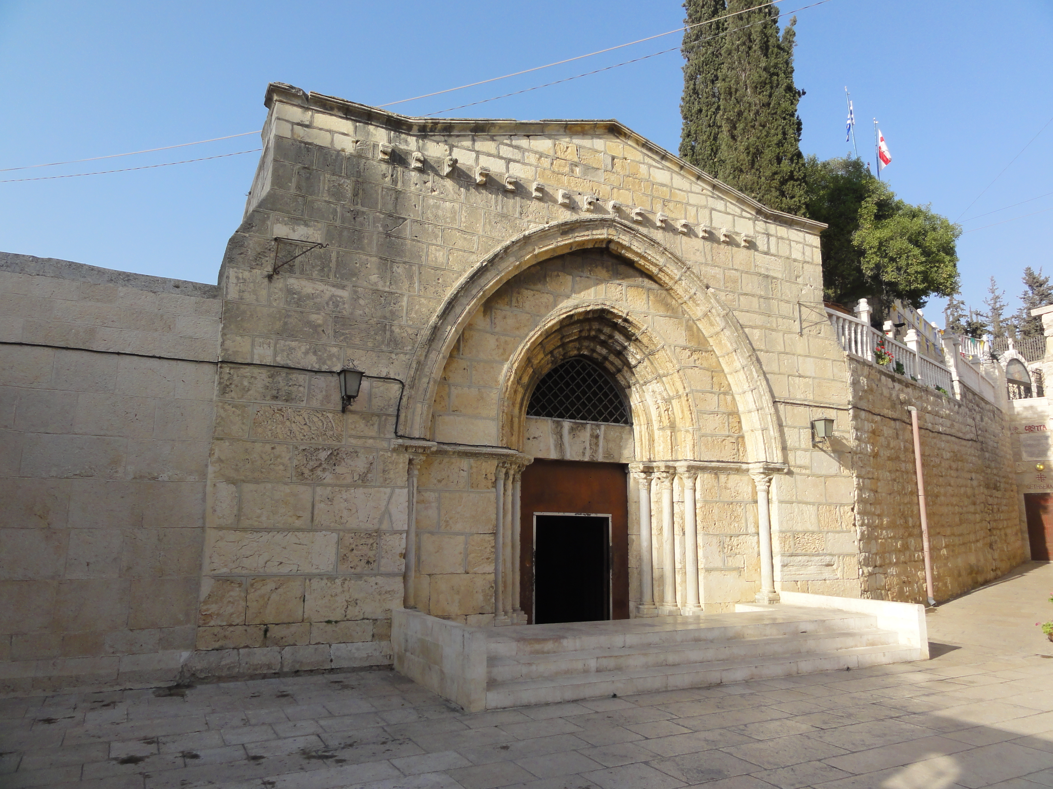 Alleged Mary's Tomb, entrance